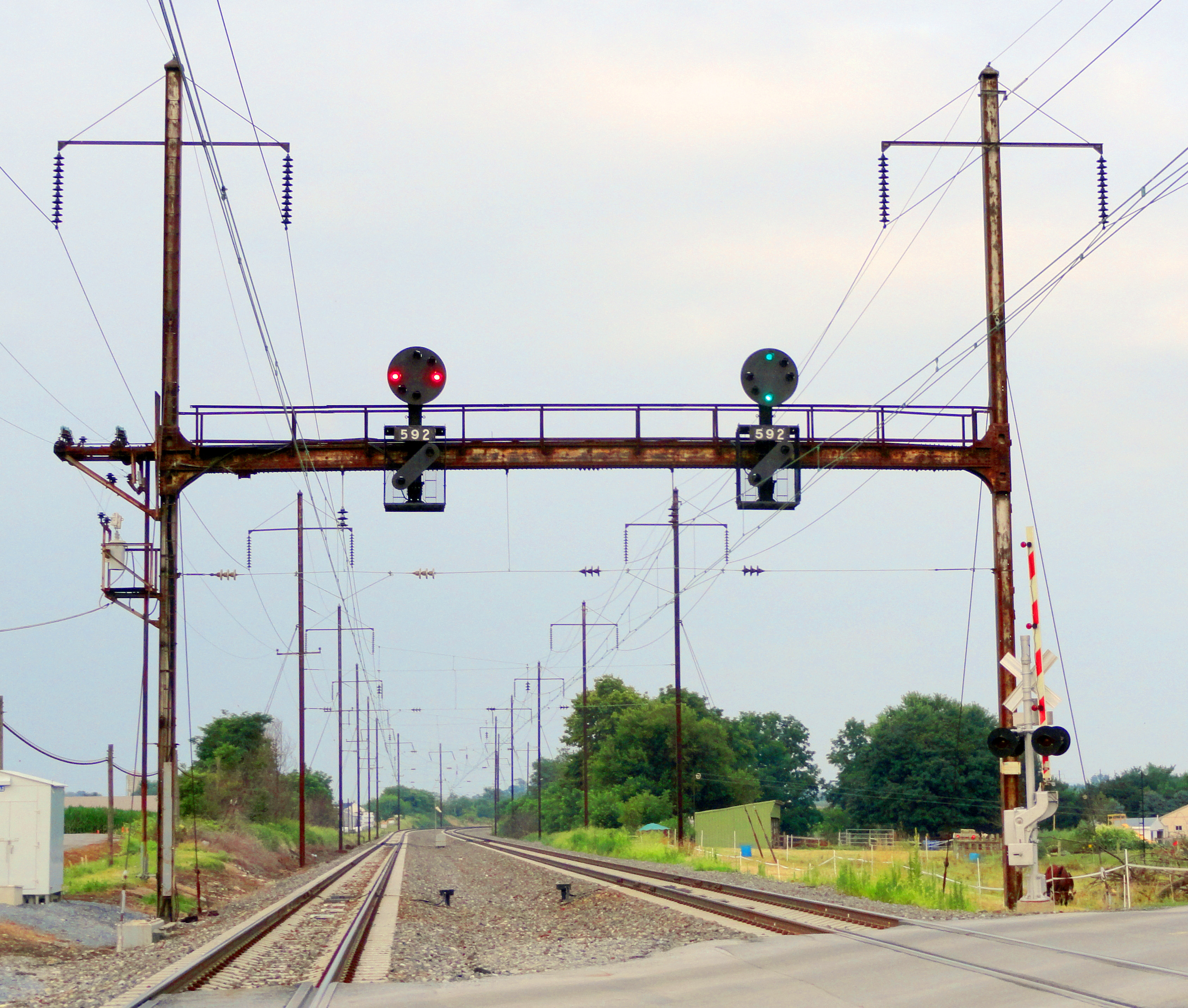 View of position color light signals on the Amtrak Philadelphia to Harrisburg Main Line (part of the Keystone Corridor), east of Lancaster, Pennsylvania. Looking eastbound toward Philadelphia. Signals were converted from PRR position lights (single-color).